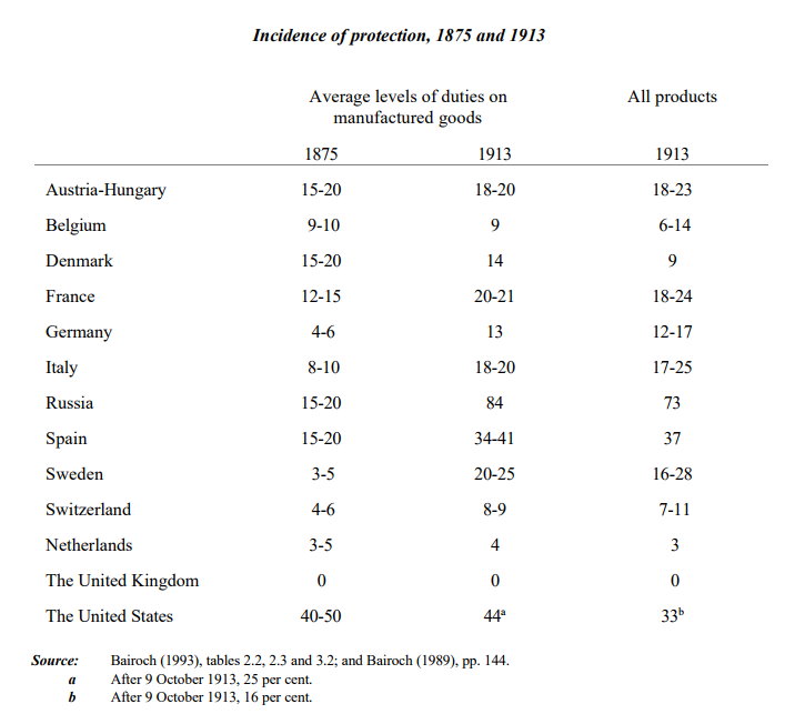 Average levels of duties (1875 and 1913)